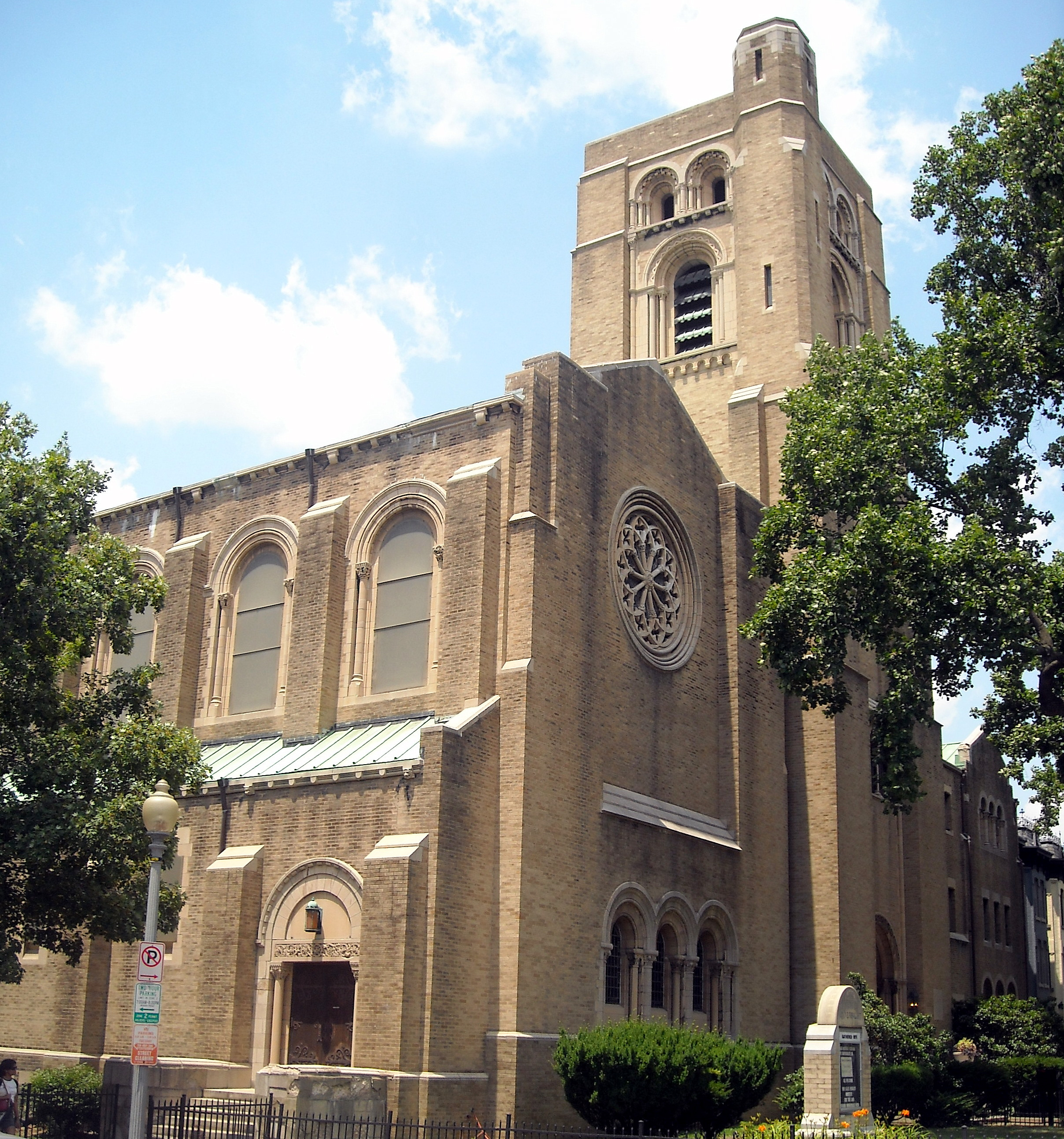 Universalist National Memorial Church on 16th Street, NW in the Dupont Circle neighborhood of Washington, D.C.